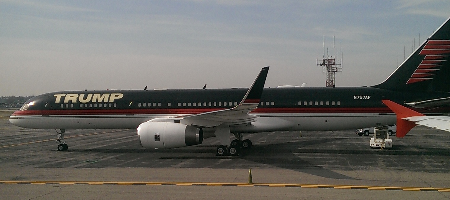 Donald Trump's personal Boeing 757 on the tarmac at New York's LaGuardia Airport